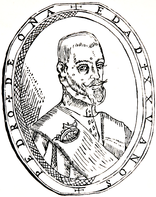 Pedro de Oña, chilean poet